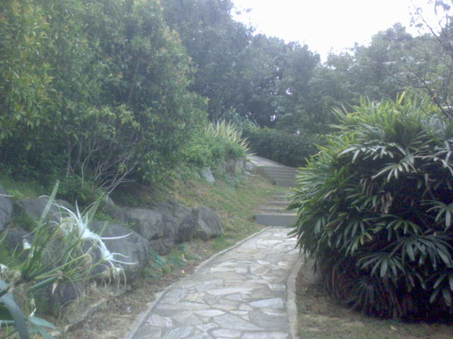 Taiwan acacia path of Chung Hua University